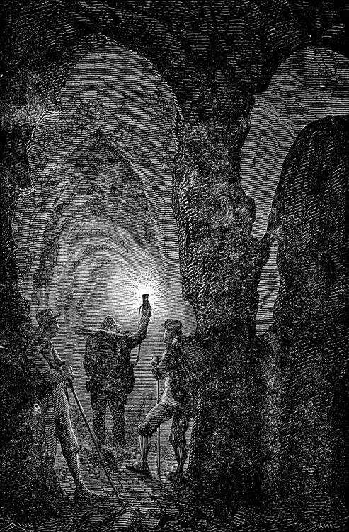 An ilustration from the novel "Journey to the Center of the Earth" by Jules Verne painted by Édouard Riou.